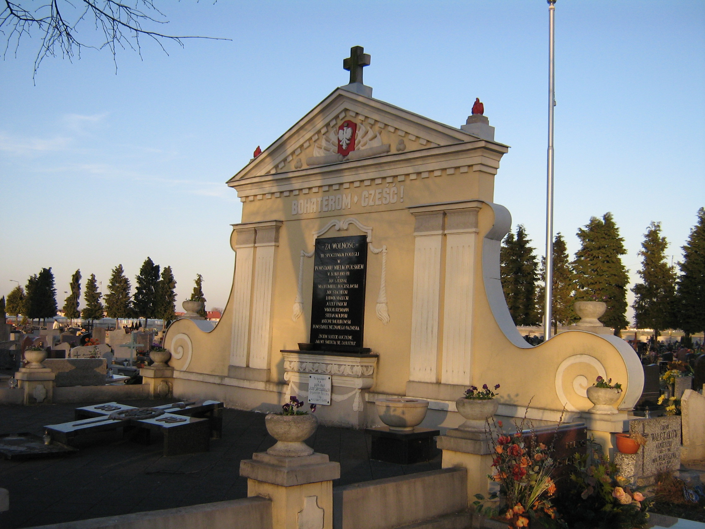 Greater Poland Uprising 1918/1919 - Monument and grave in Grodzisk Wlkp. (Poland)